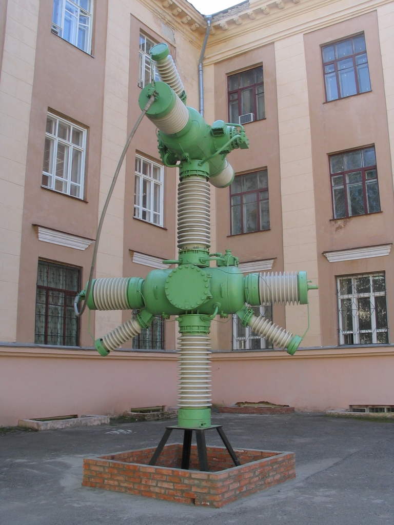 High-voltage circuit breaker near Tomsk Polytechnic University